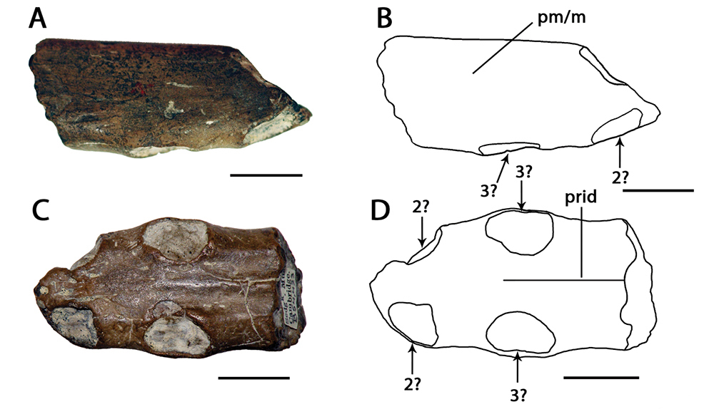 A–D Pterodactylus fittoni, holotype CAMSM B54423 (Albian, Cambridge Greensand), anterior part of the rostrum. A right lateral view B respective line drawing C ventral view D respective line drawing. Abbreviations: m – maxillae, pm – premaxillae, prid – palatal ridge. Arrows and numbers indicate alveoli or teeth and their respective position. Scale bar = 10 mm.